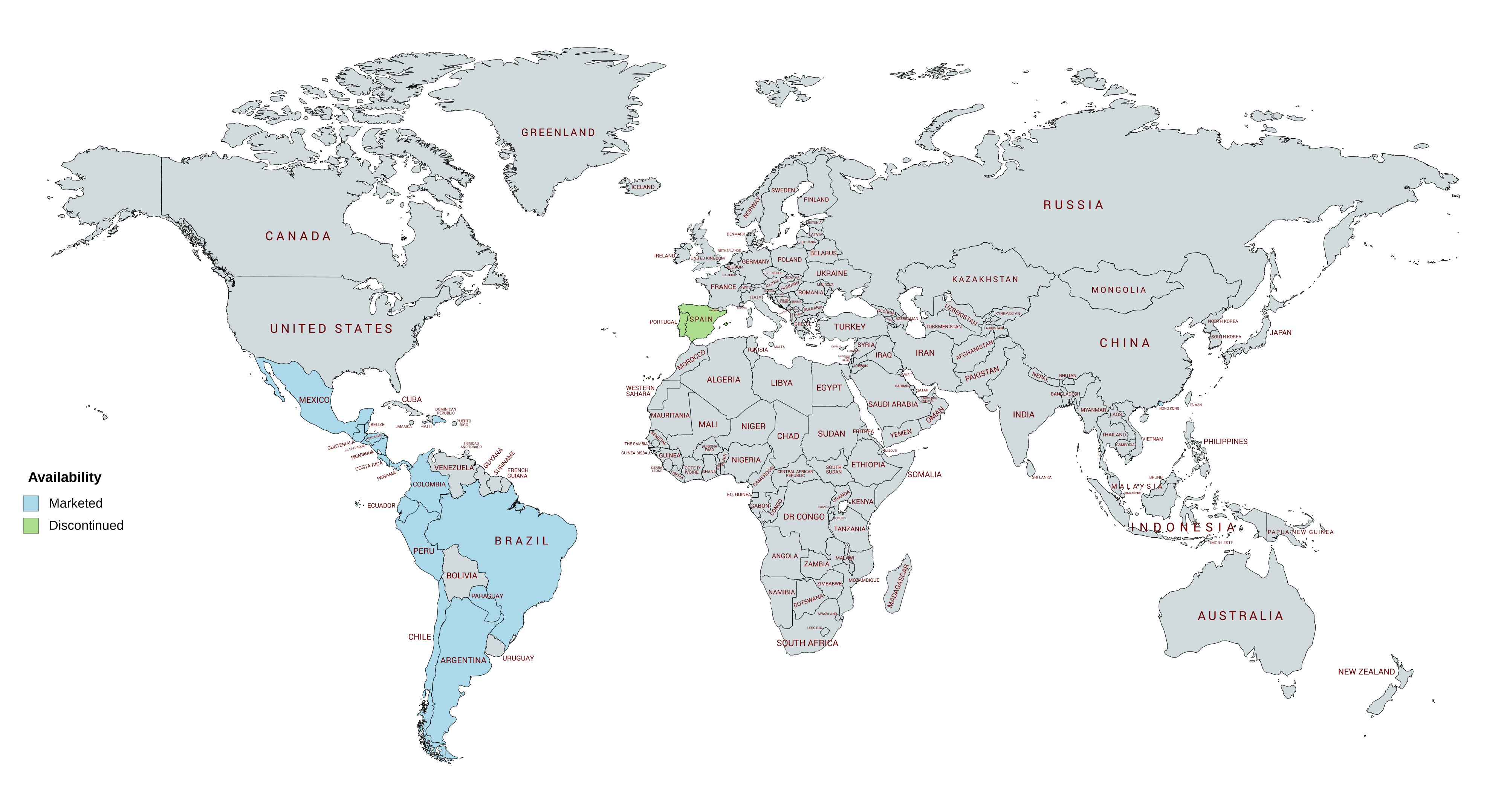 Known availability of estradiol enanthate/algestone acetophenide as of September 2018. Created from source material using . Source of the information: See Estradiol enanthate/algestone acetophenide#Availability and references.